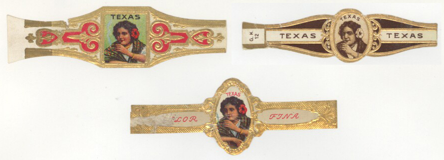 Sigarbands Hoekx & Maas sigarfactory Valkenswaard the Netherlands